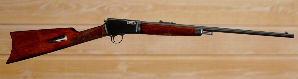 Winchester Model 1903